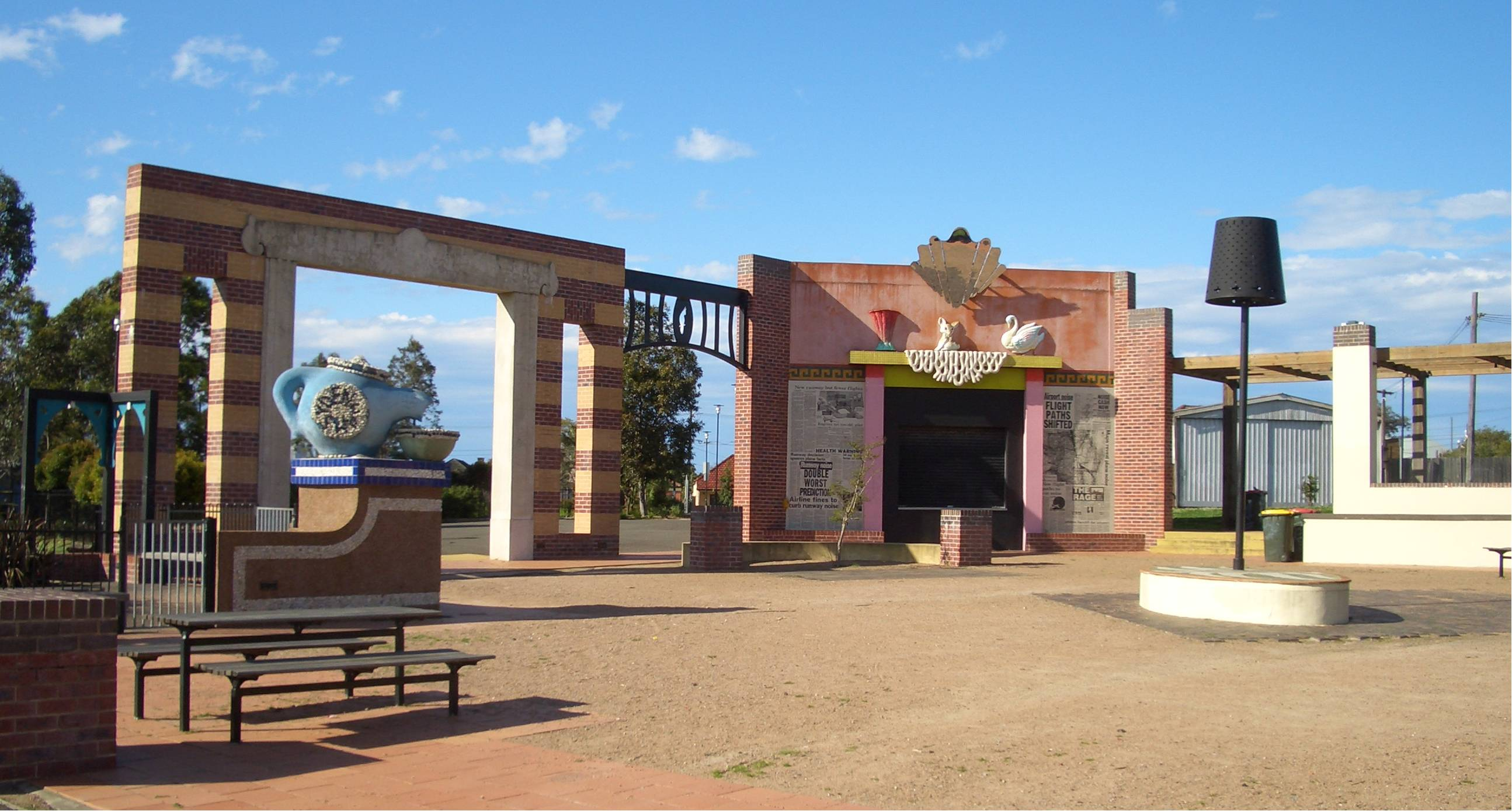 Sydenham Green Park in the Sydney suburb of Sydenham, New South Wales.